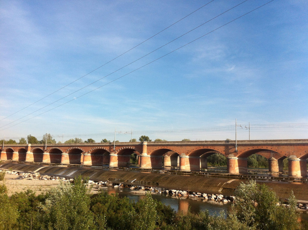 Stuff